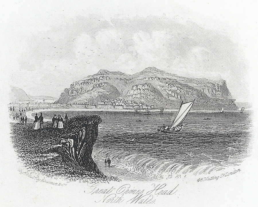 A view of Llandudno, Llandudno Bay and the Great Orme showing boats in the bay and people along the shore.